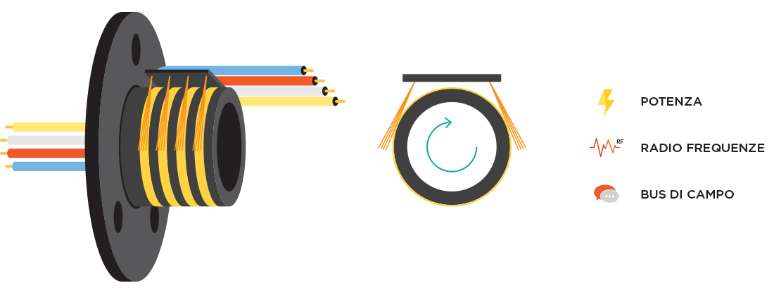 Illustration of the fibre brush slip ring technology